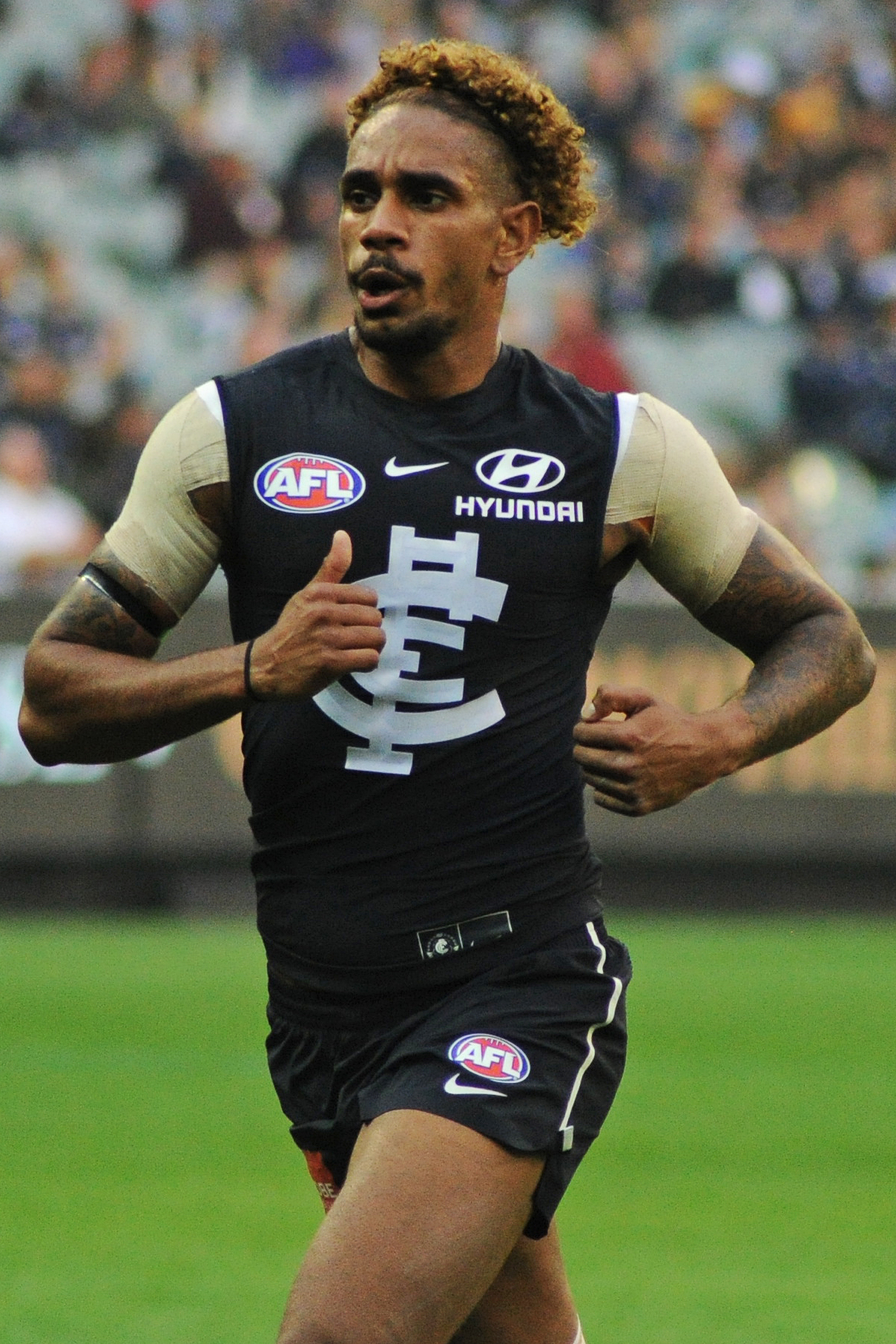 Jarrod Garlett during the AFL round five match between Carlton and West Coast on 21 April 2018 at the Melbourne Cricket Ground in Melbourne, Victoria.